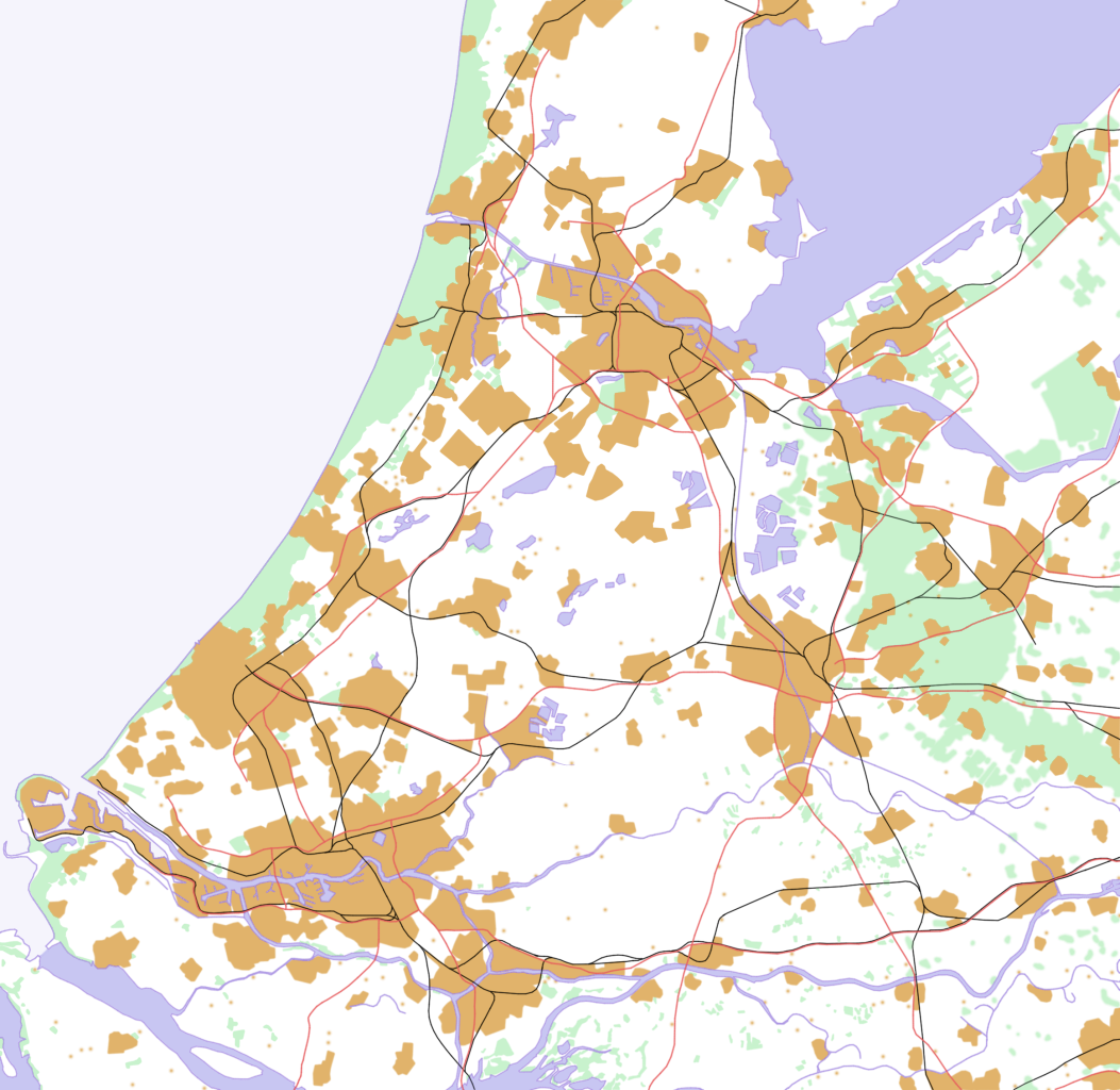 This is a schematic map of the Randstad, Netherlands. A few notes: Orange: Urban areas (schematic) - the urban areas have been a bit overestimated to show the urban areas more clearly. Areas (like parks) in a city are part of the urban area. Some very small villages are not included. Residential areas, industrial and commercial areas are combined. Green: Forests and dunes (schematic)- nearby forests and dunes are combined. Light Blue: Sea (schematic) Middle Blue: Rivers and lakes (schematic) - smaller rivers, lakes and creeks are not included. Red: Highways Black: Railways